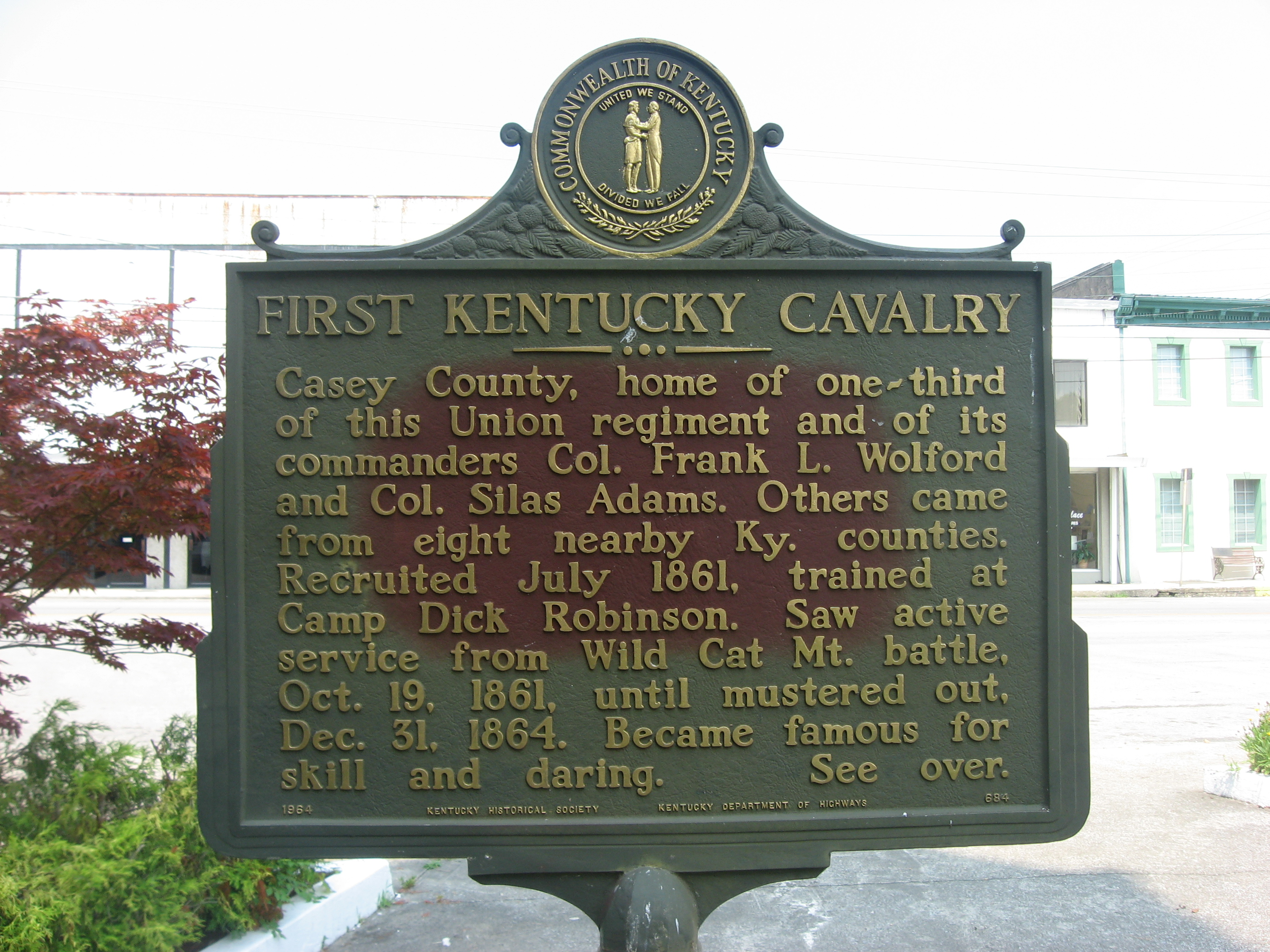 A historical marker to the 1st Regiment Kentucky Volunteer Cavalry on the lawn of the old courthouse in Liberty, Kentucky, United States.